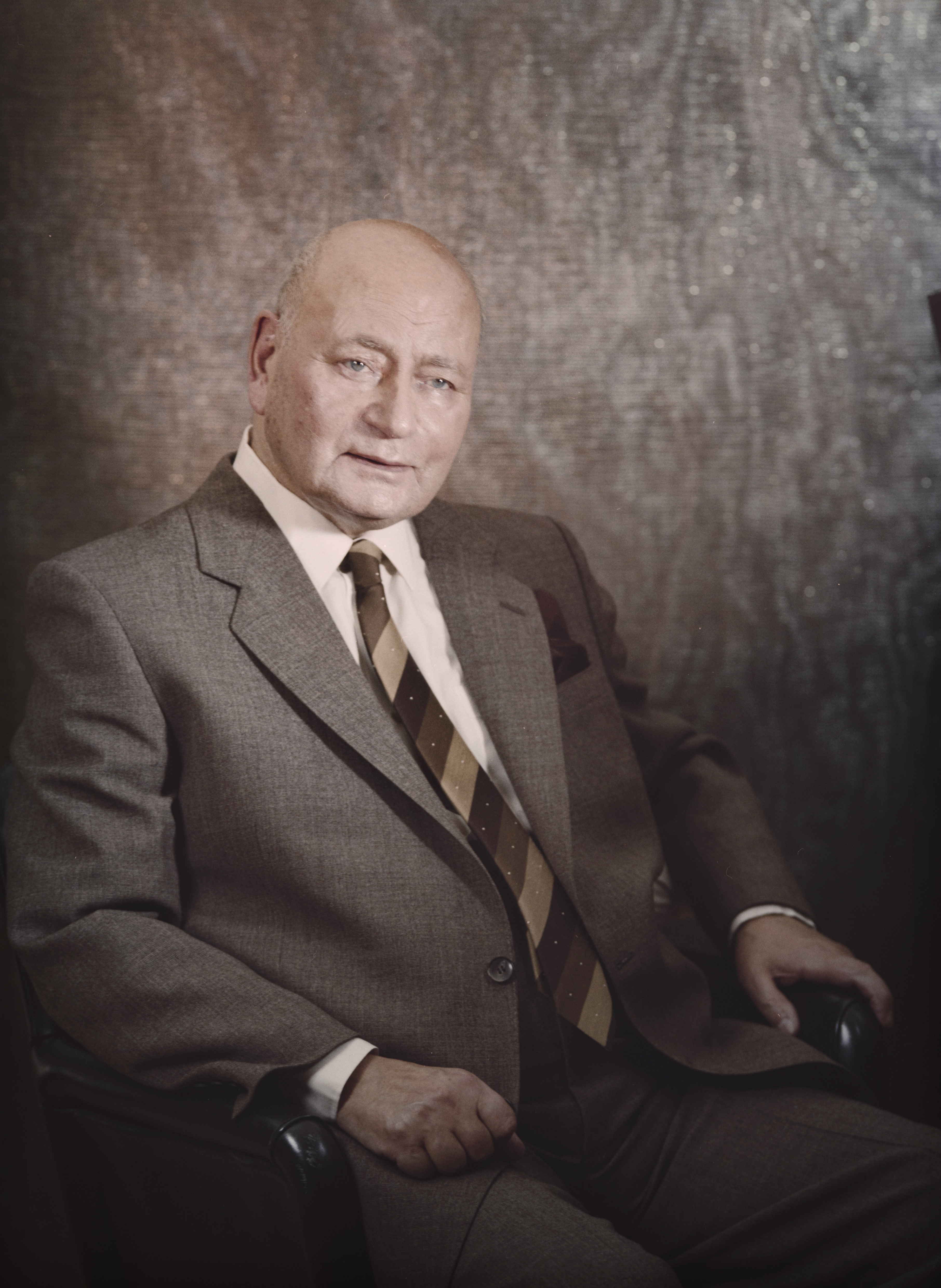 Photograph of the Finnish business executive Ruben Jaari (1906–1991).